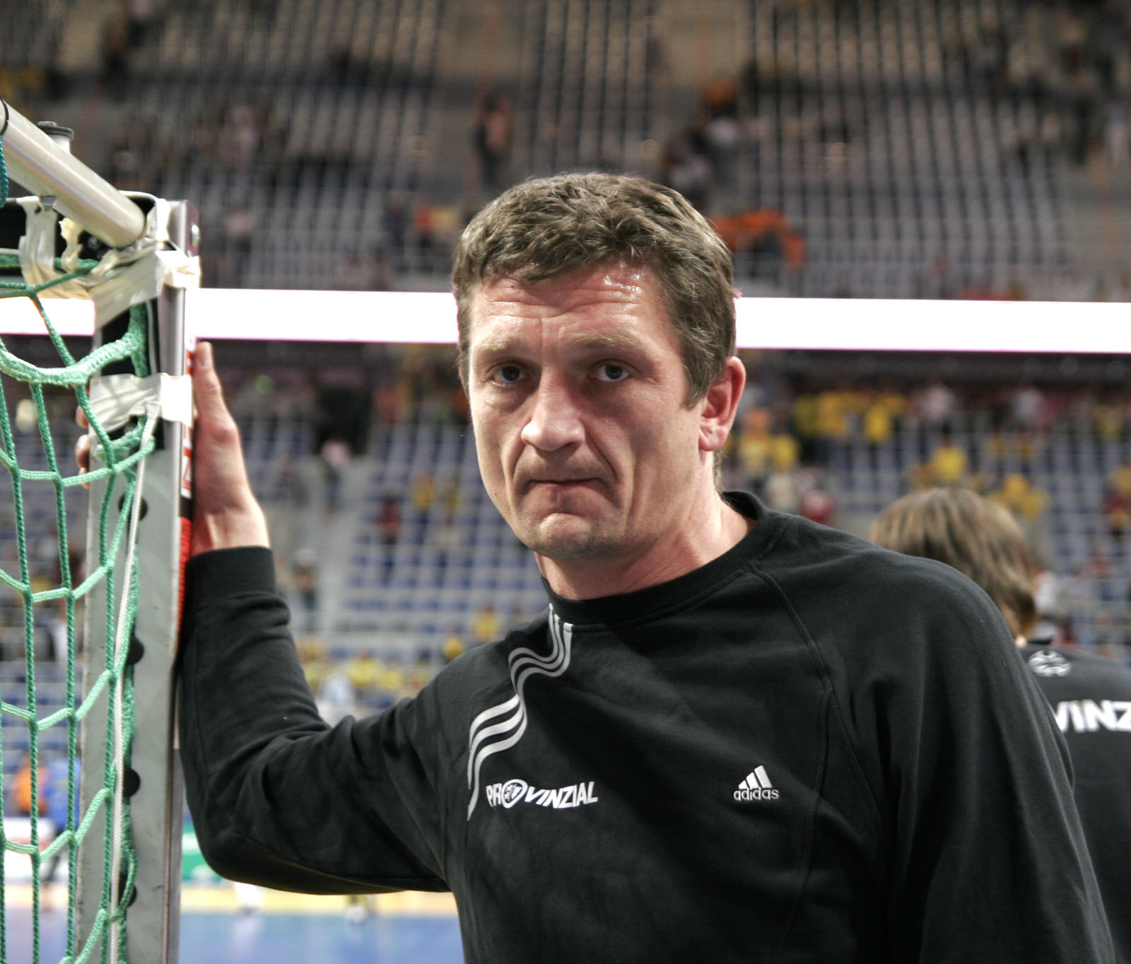 Andrei Xepkin, the spanish handball player on May 2nd, 2007 in Mannheim (Germany), prior the game SG Kronau/Östringen - THW Kiel (31:28)